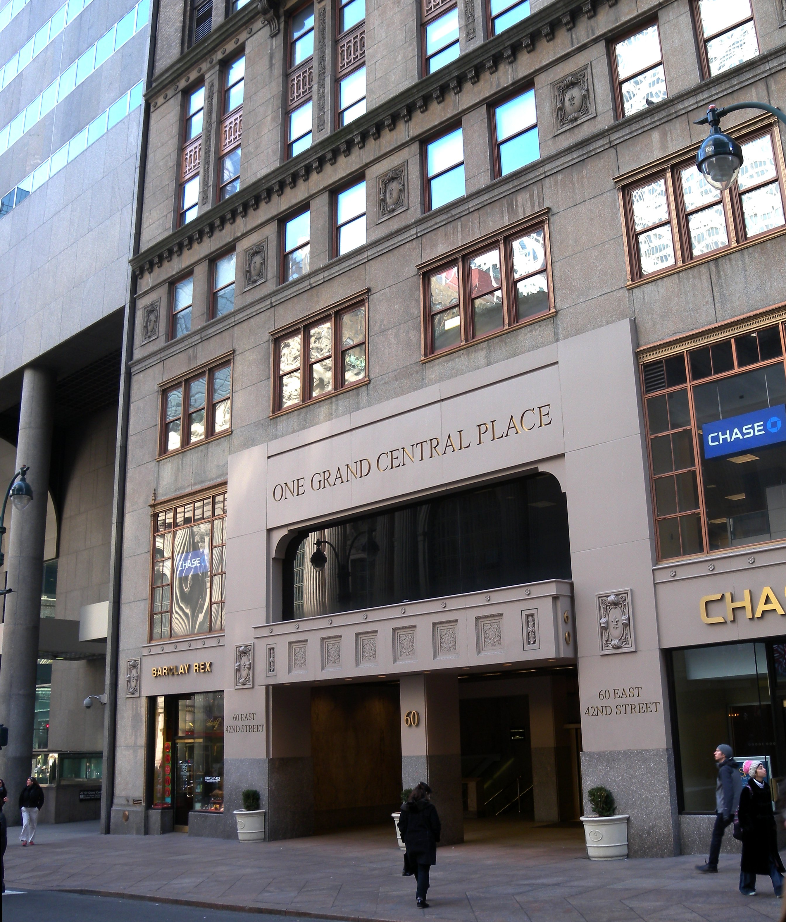 Looking south at former File:Lincoln Building jeh.JPG, now One Grand Central Place) on a sunny afternoon.